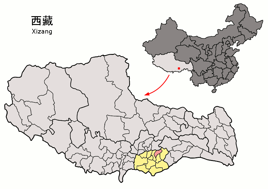 Location of Sangri County (pink) and Shannan Prefecture (yellow) within Tibet (Xizang) autonomous region of China